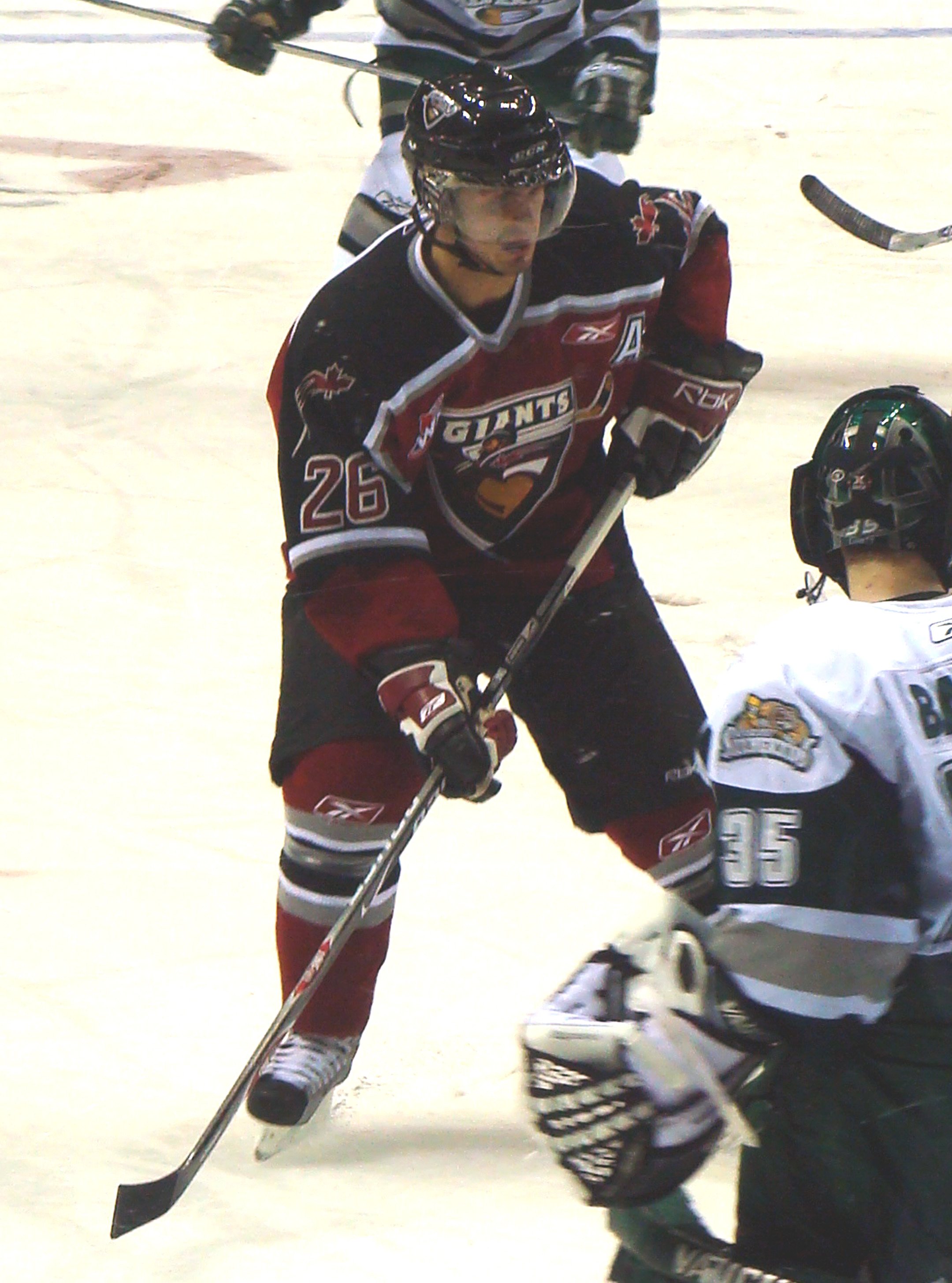 Vancouver Giants forward Michal Repik